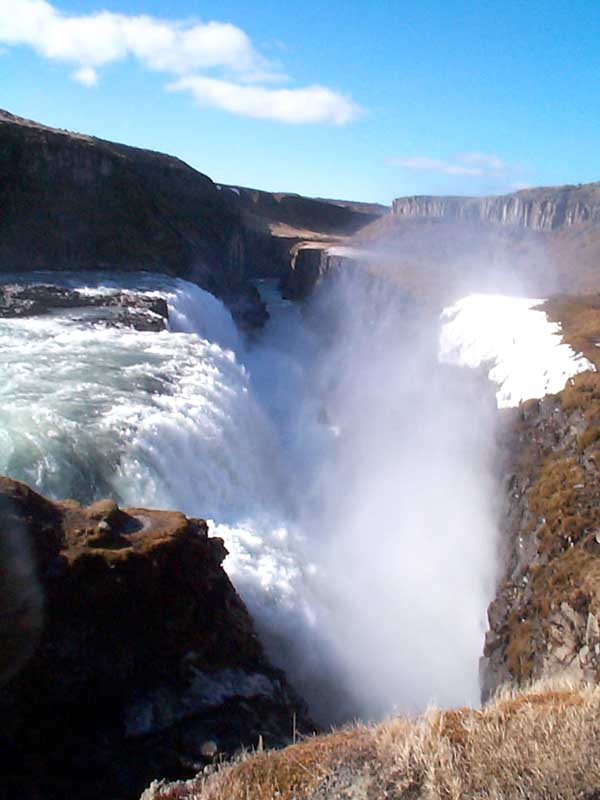 Gullforss waterfall on Iceladnd